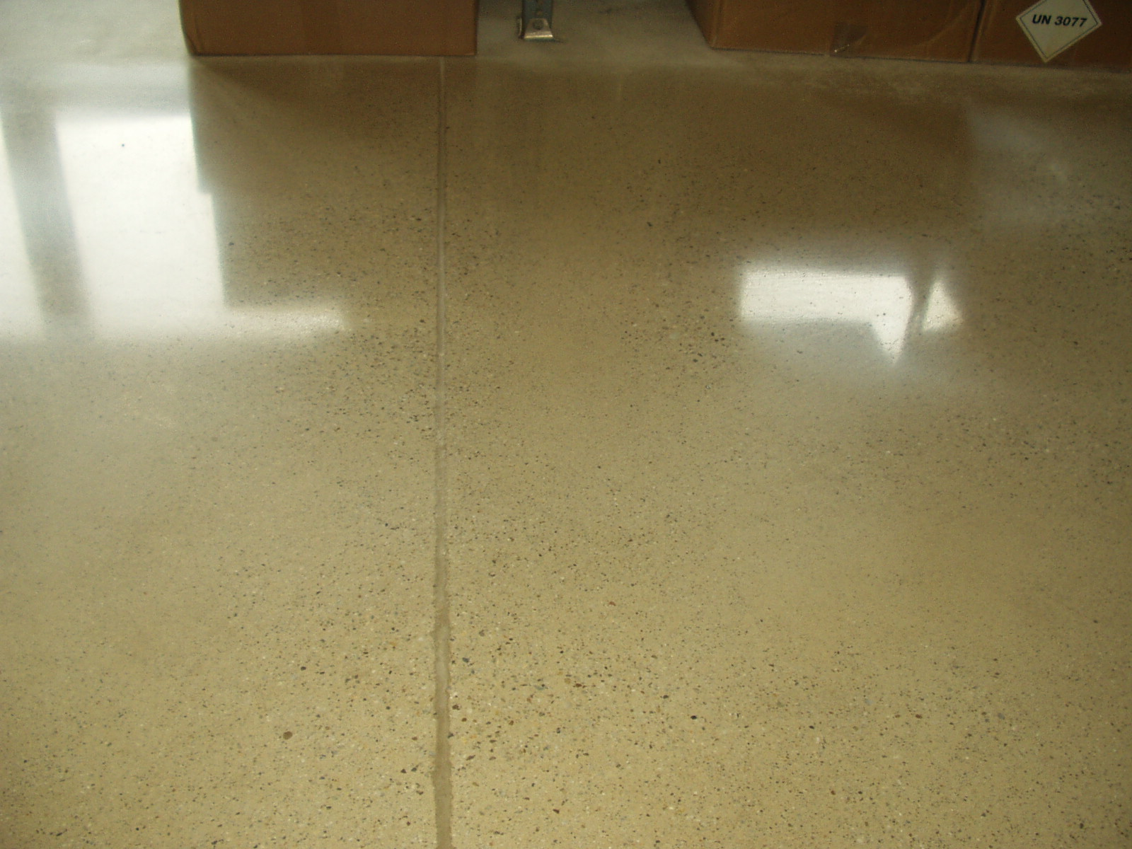 Polished concrete